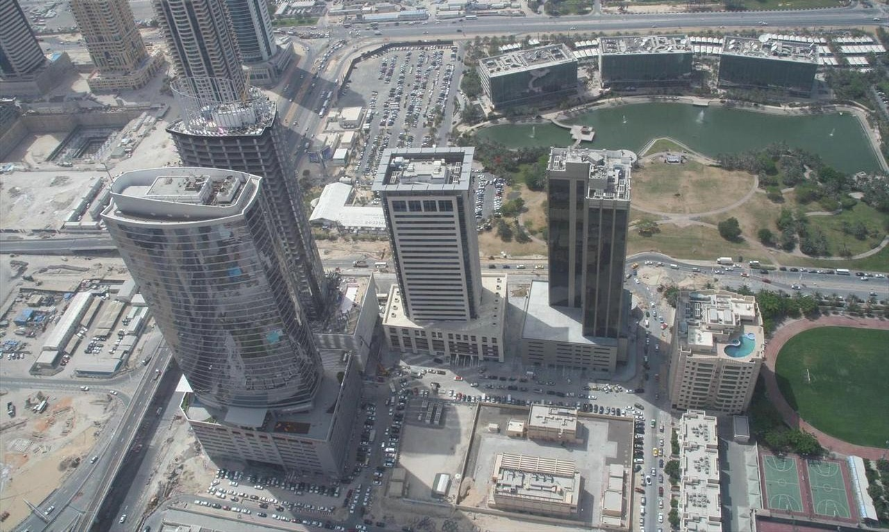 This is a photo showing Dubai Media City in Dubai, United Arab Emirates as seen from the air on 1 May 2007. The main buildings in Dubai Media City are the three buildings in the upper right. New skyscrapers within Dubai Media City are in the center of the photograph. A few of the buildings in Dubai Marina are on the left. A part of the campus of the American University in Dubai is in the bottom right corner.